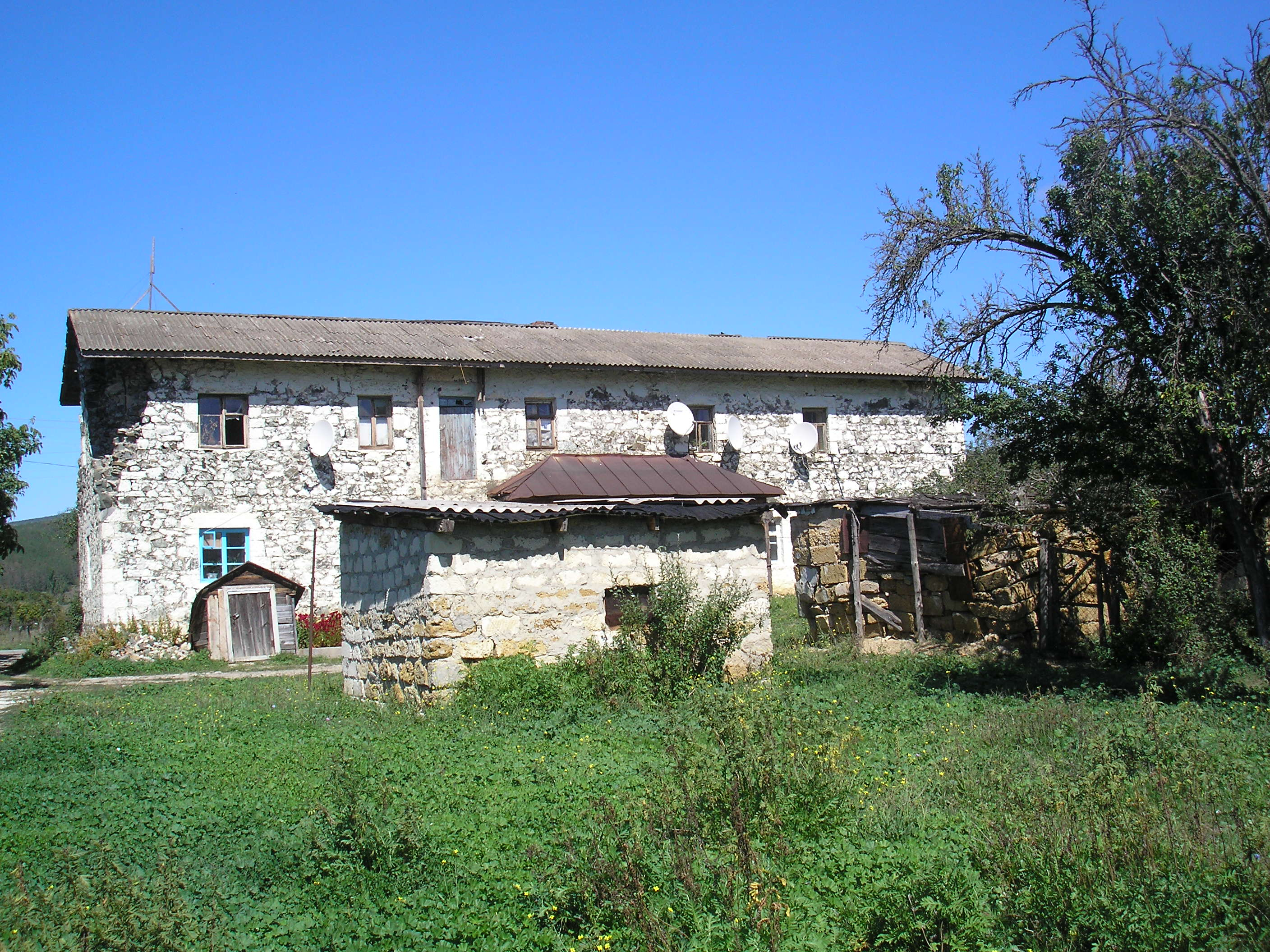 Village Aromat, Bakhchisaray Raion, the Crimea.